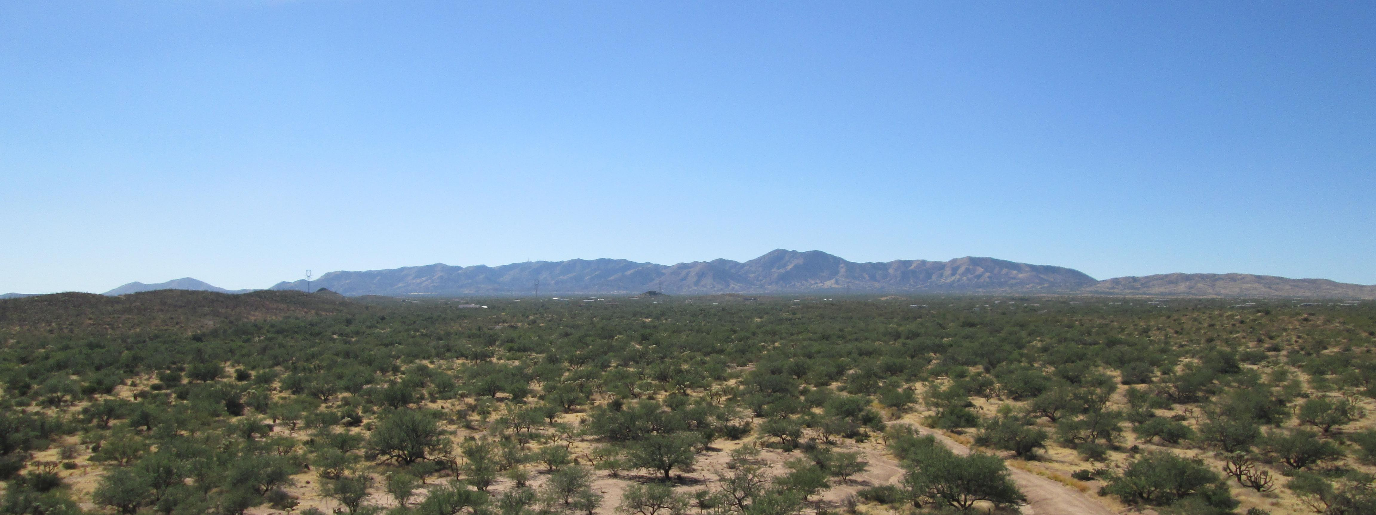 The Sierrita Mountains in Pima County, Arizona, in October 2013. Facing west